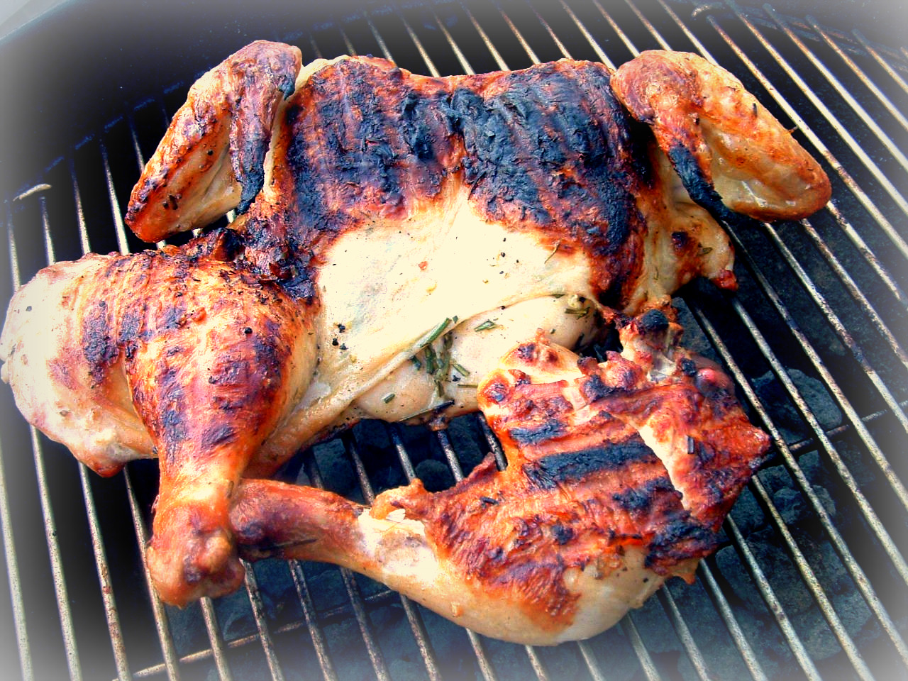 A spatchcock is a poussin (chicken) or game bird that is prepared for roasting and broiling over a grill/spit, or a bird that has been cooked after being prepared in this way. The method of preparing the chicken involves removing the backbone and sternum of the bird and flattening it out before cooking